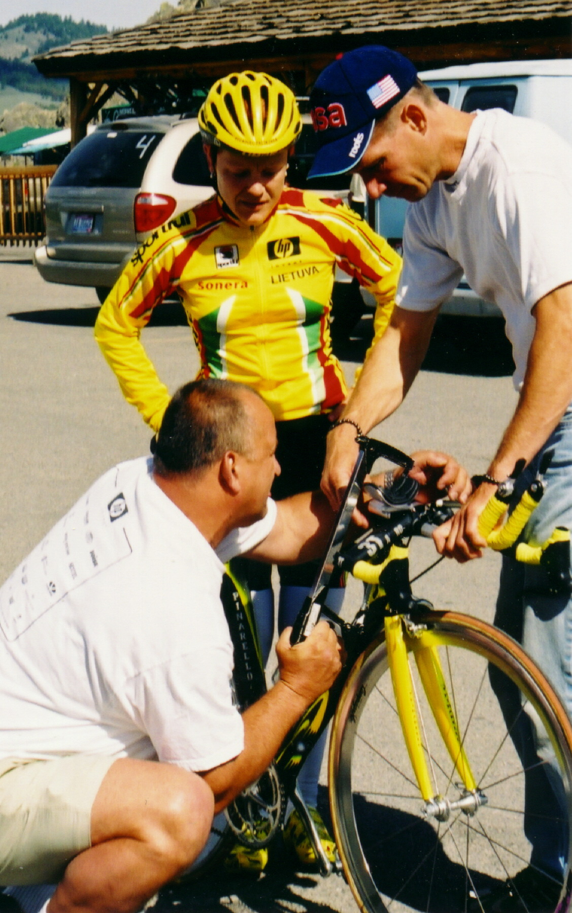 An apparently unconcerned Diana Ziliute looks on passively while wannabe bike mechanic Valerijus Konovalos (Lithuanian national women's coach) makes an adjustment to her time trial bike with a hacksaw! Actually, they had just installed some aero bars and Konovalos was cutting off the protruding ends of the new bars. It's not everyday you get to take a hacksaw to a $5,000 Pinarello! This photo was taken in Stanley, Idaho just prior to the Stanley Time Trial (stage 3 of the 2002 Women's Challenge).